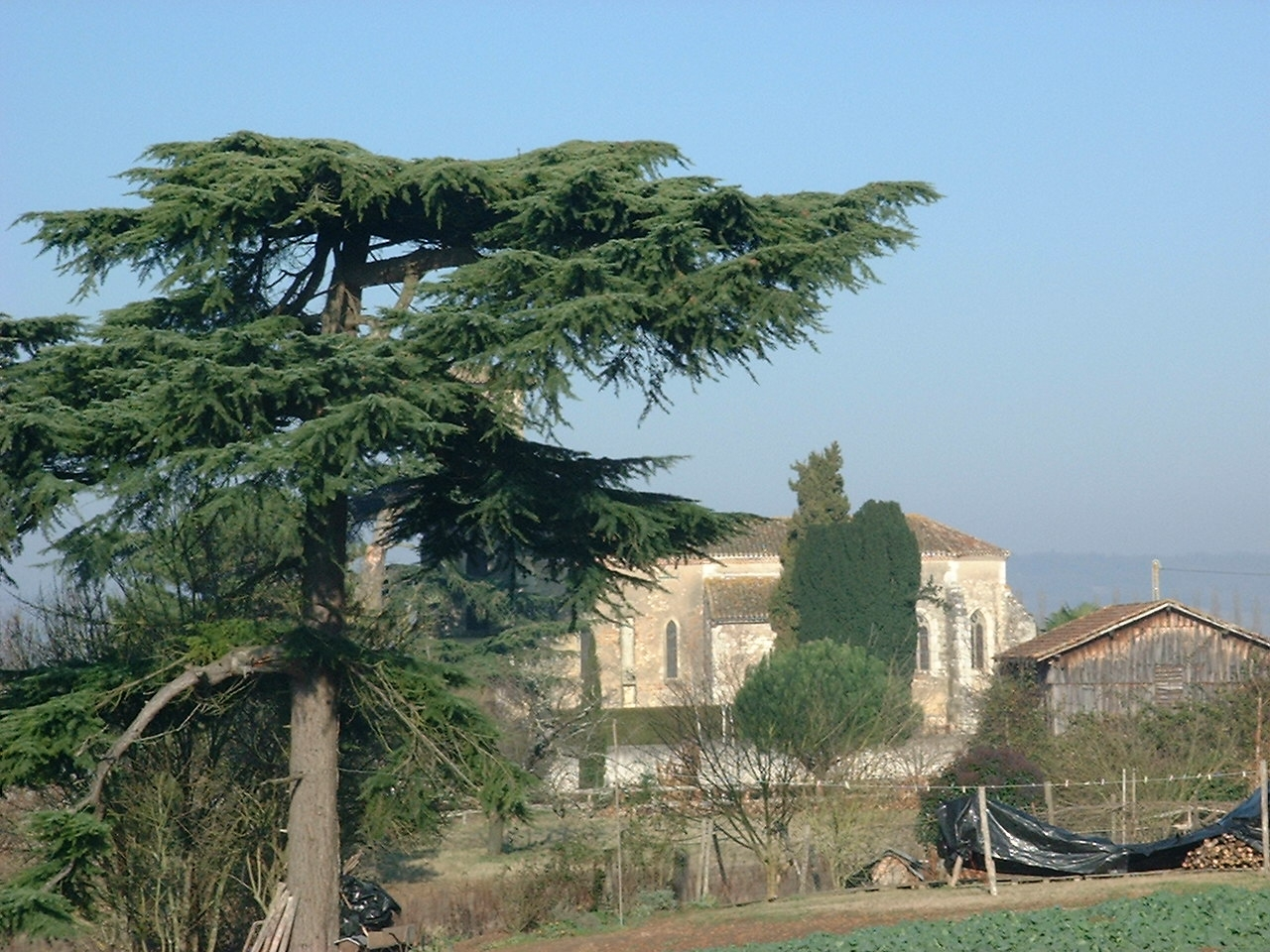 Colleignes' church in Bourran